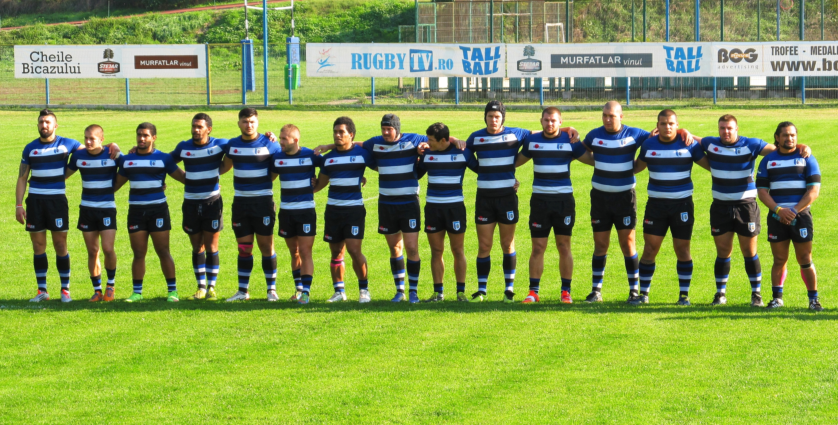 Romanian Rugby Union team CSM București before a match with rivals CSM Baia Mare in Superliga 2015